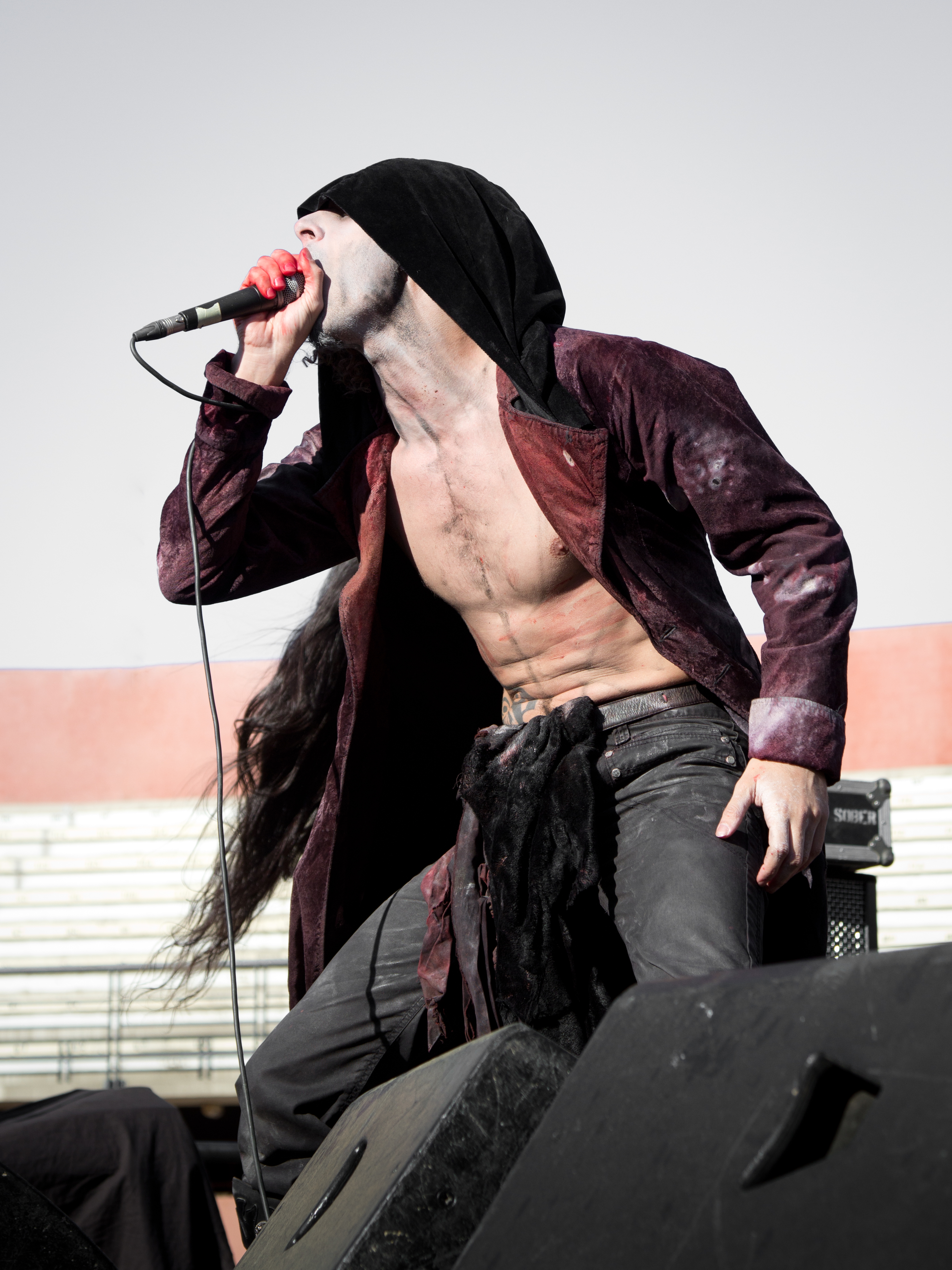 Spanish metal band Noctem at Asaco Metal Fest 2013, Parla, Spain.